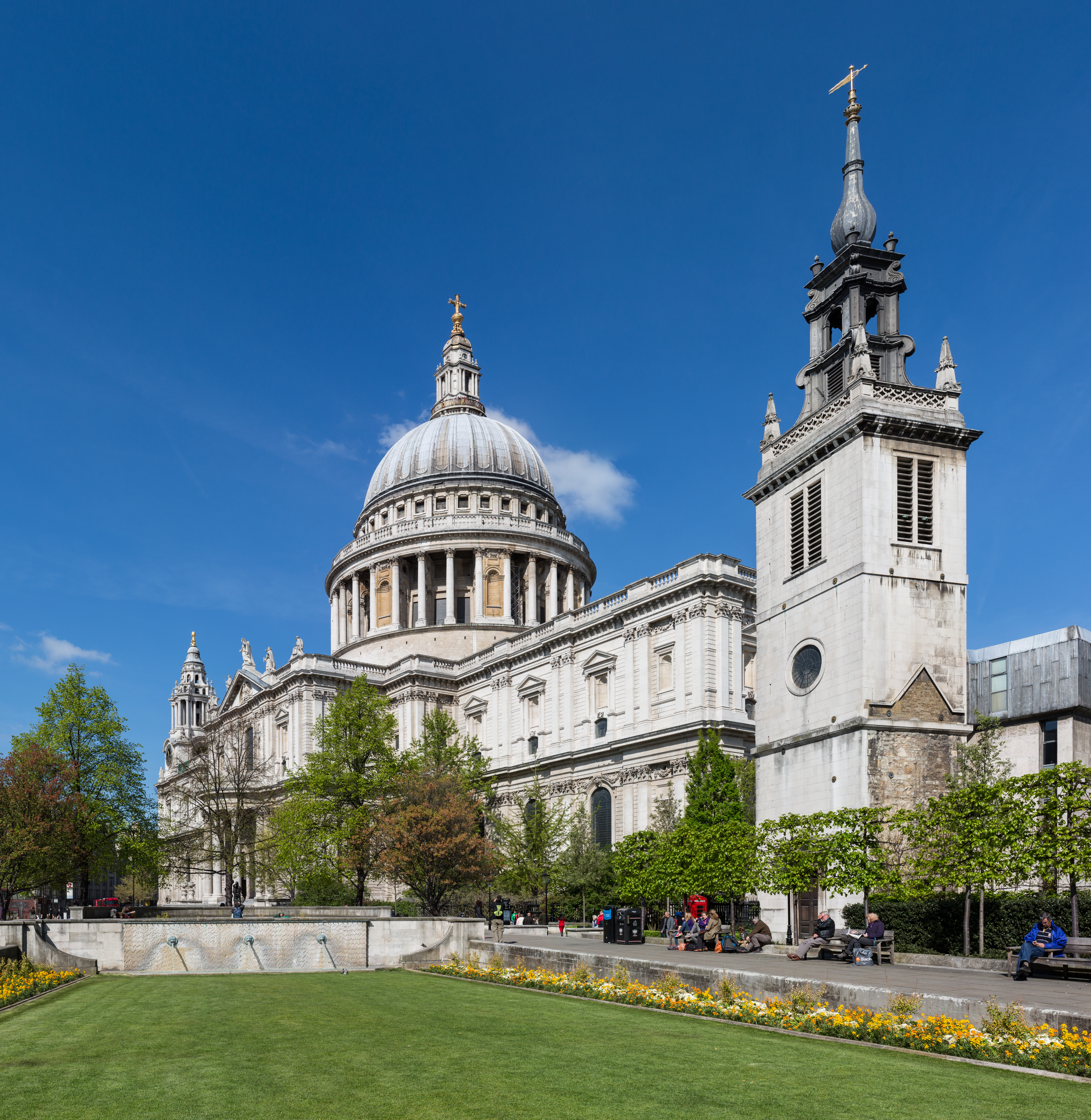 The view of St Paul's Cathedral from Festival Gardens.